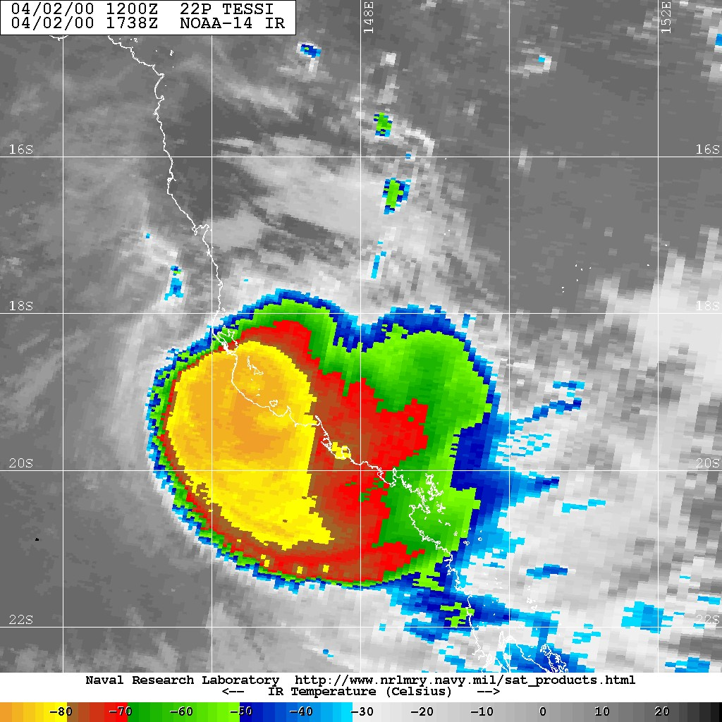 Infrared satellite image of Cyclone Tessi approaching the coast of Queensland on 2 April 2000.